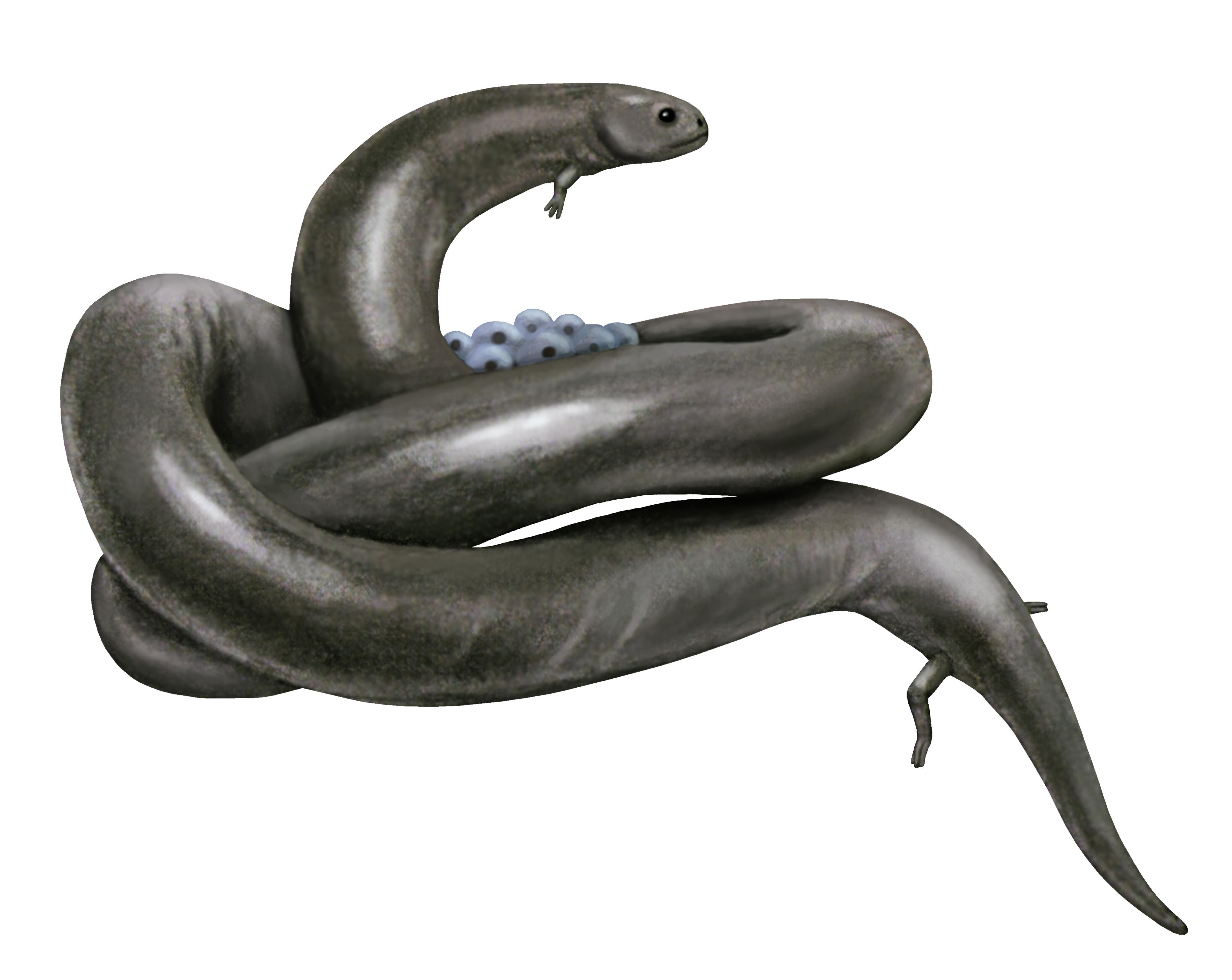 Life restoration of Lysorophus tricarinatus. Based on the life restoration found here. Egg coiling behavior is speculative and is based on the behavior of modern amphiumas. In "A skeleton of Lysorophus tricarinatus (Amphibia: Lepospondyli) from the Hennessey Formation (Permian) of Oklahoma" by Everett C. Olson Journal of Paleontology 45(3), it is said that very small specimens of Lysorophus may belong to unhatched individuals, although this is doubtful due to the low concentration of specimens.